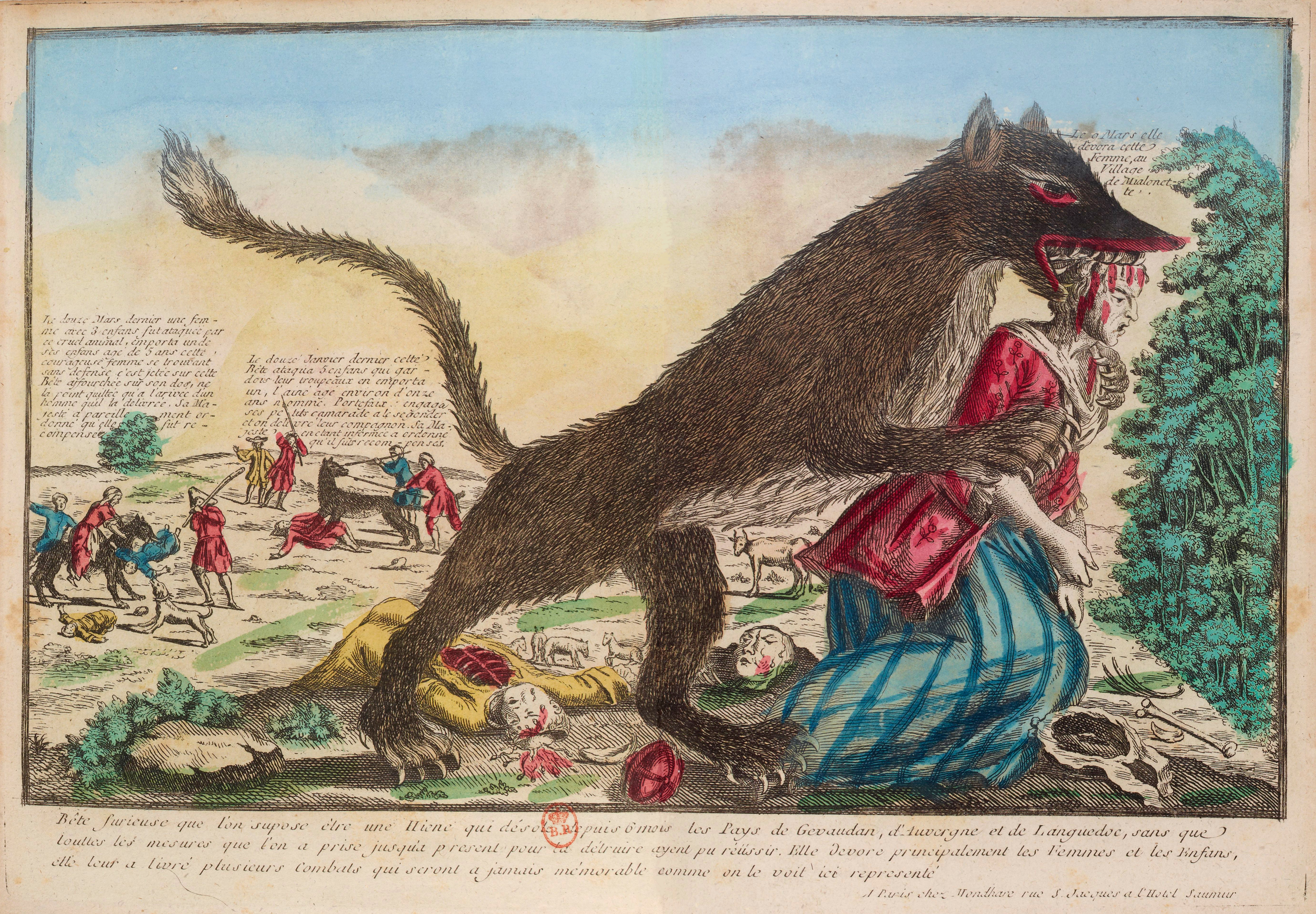 18th century print depicting the Beast of Gévaudan.